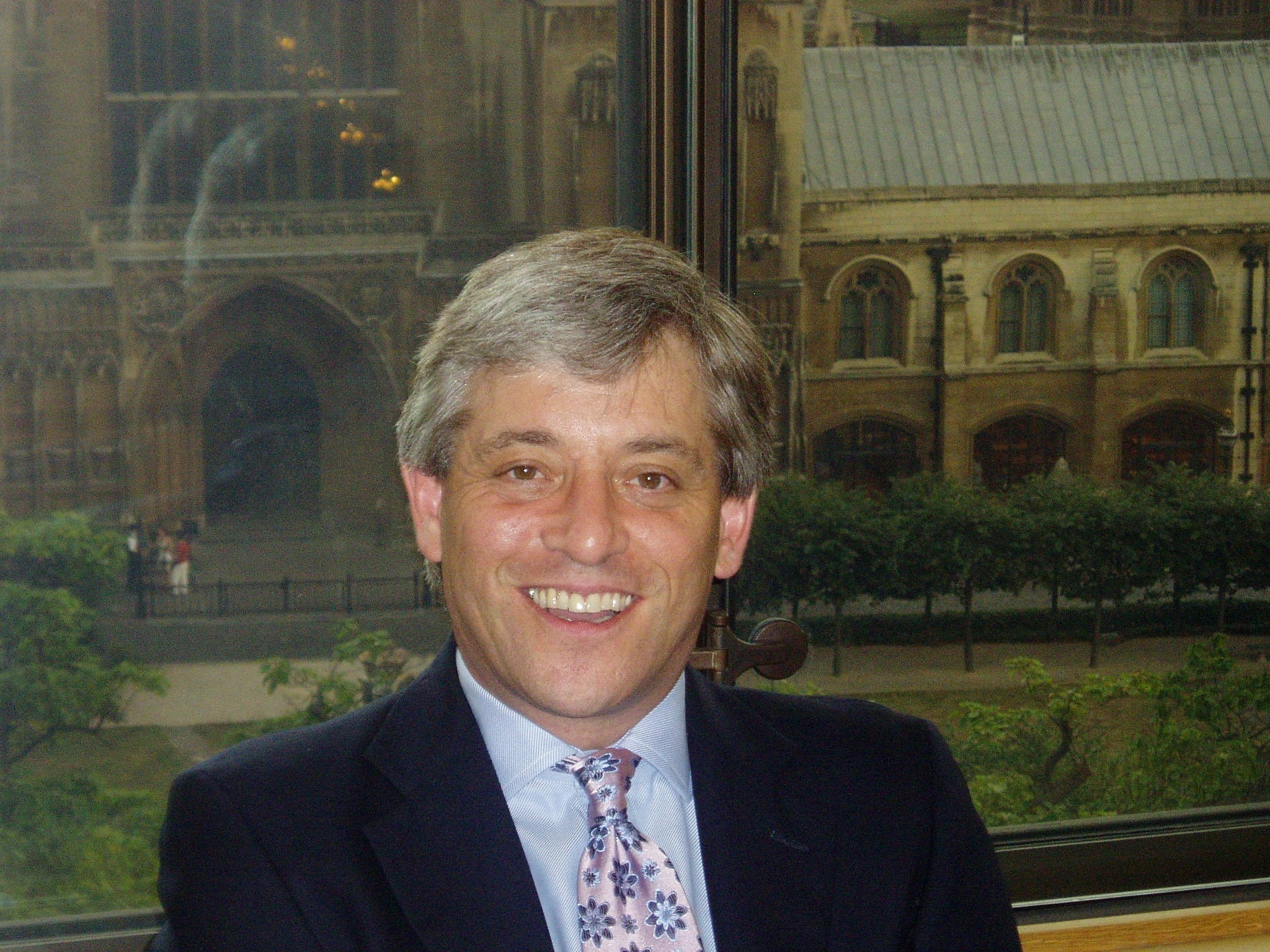 A photo of John Bercow, Speaker of the House of Commons of the United Kingdom